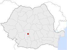 Location of Râmnicu Vâlcea in Romania.